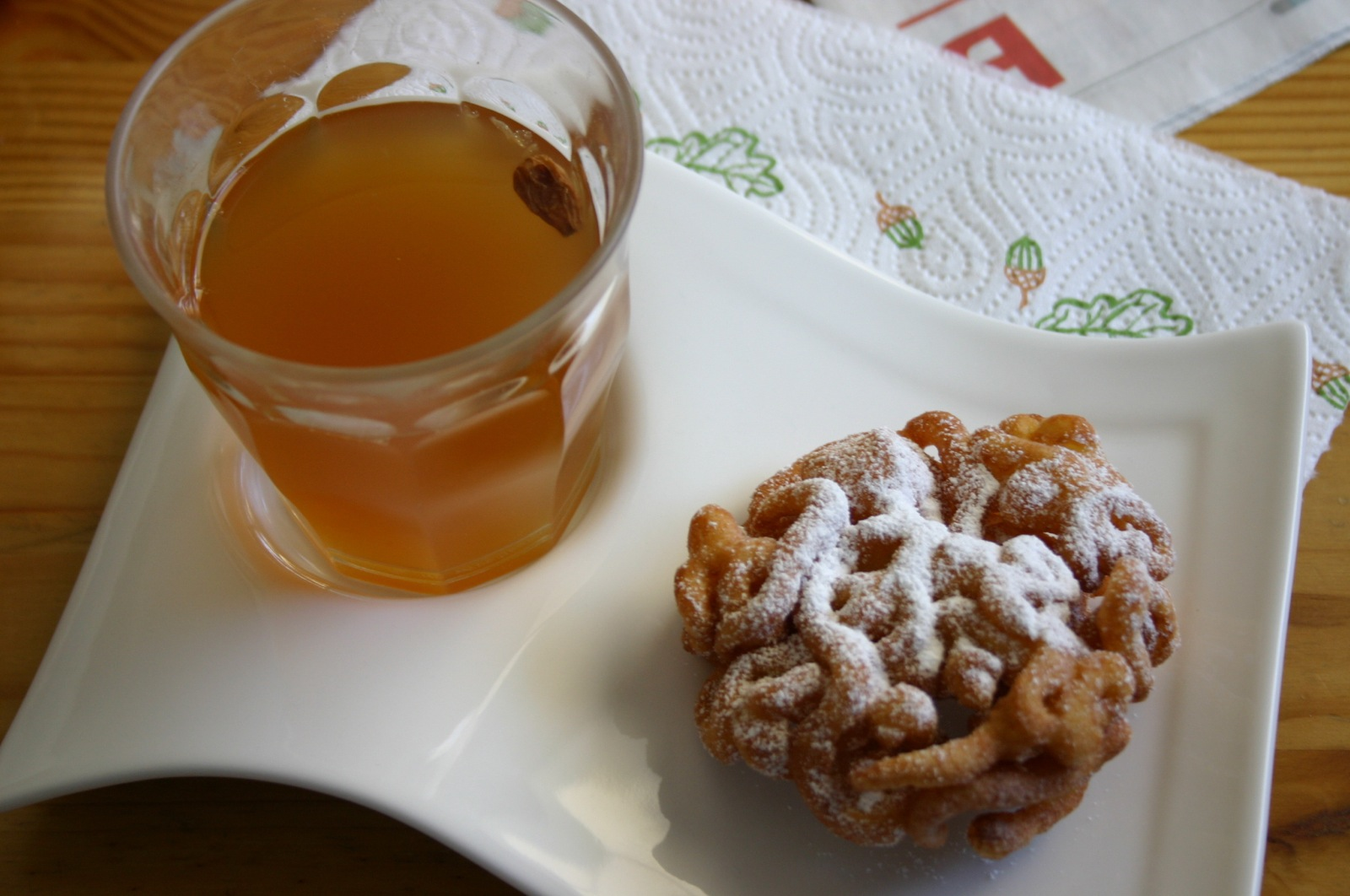 Sima (Finnish mead) and tippaleipä (pastry).